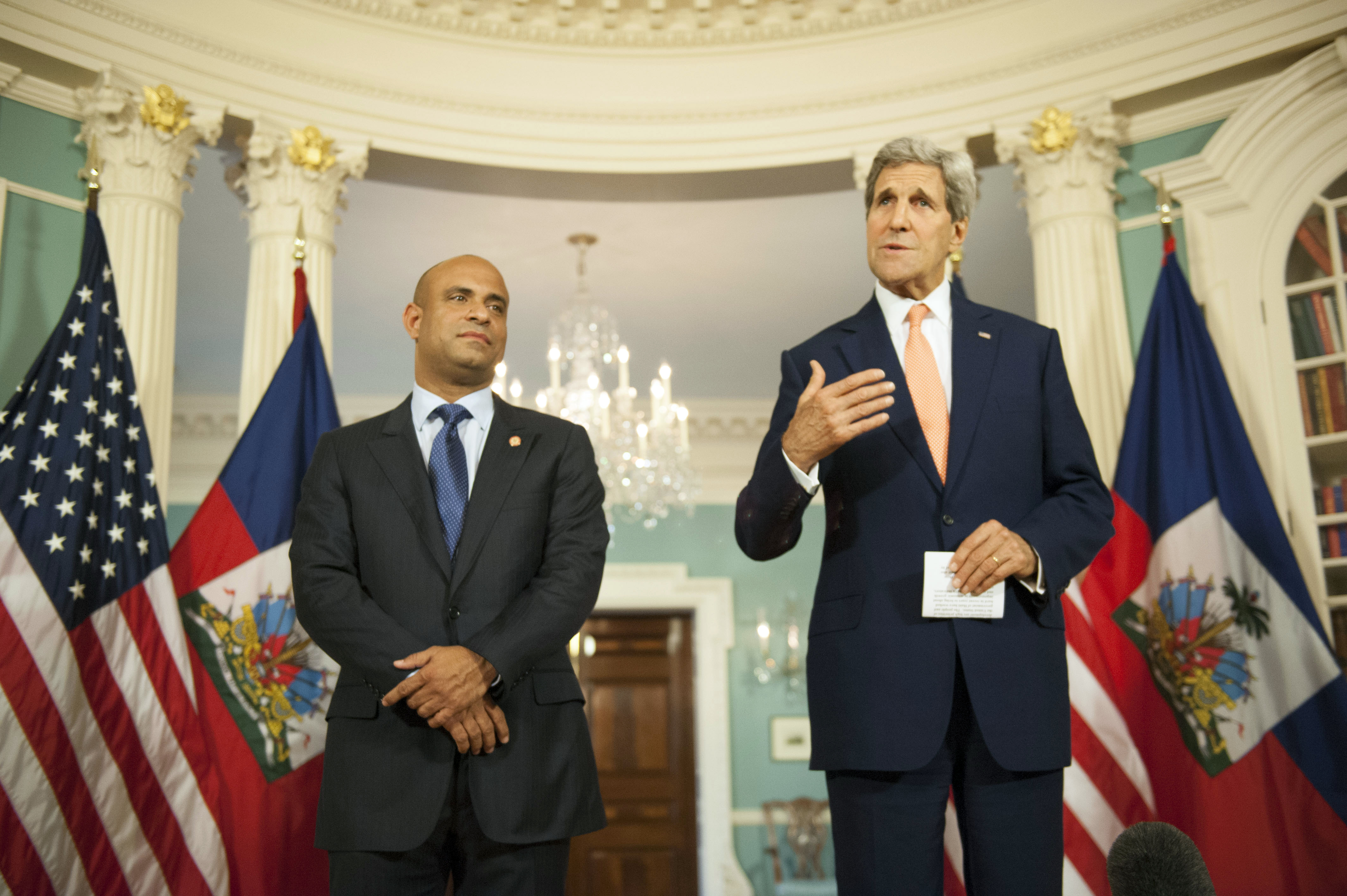 U.S. Secretary of State John Kerry meets with Haitian Prime Minister Laurent Lamothe at the Department of State in Washington, D.C., October 9, 2014.